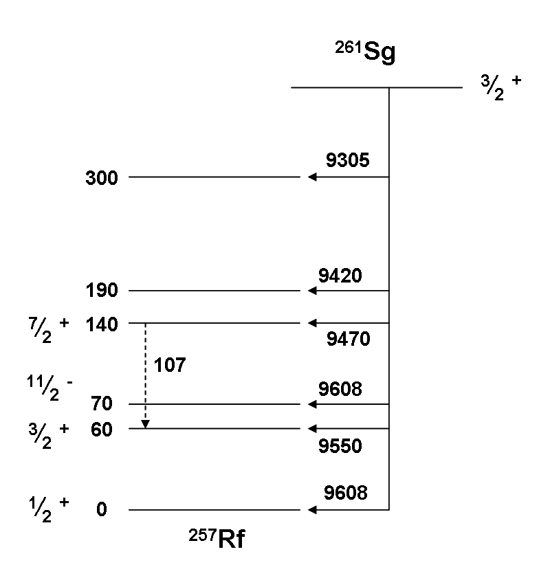 decay scheme for 261Sg